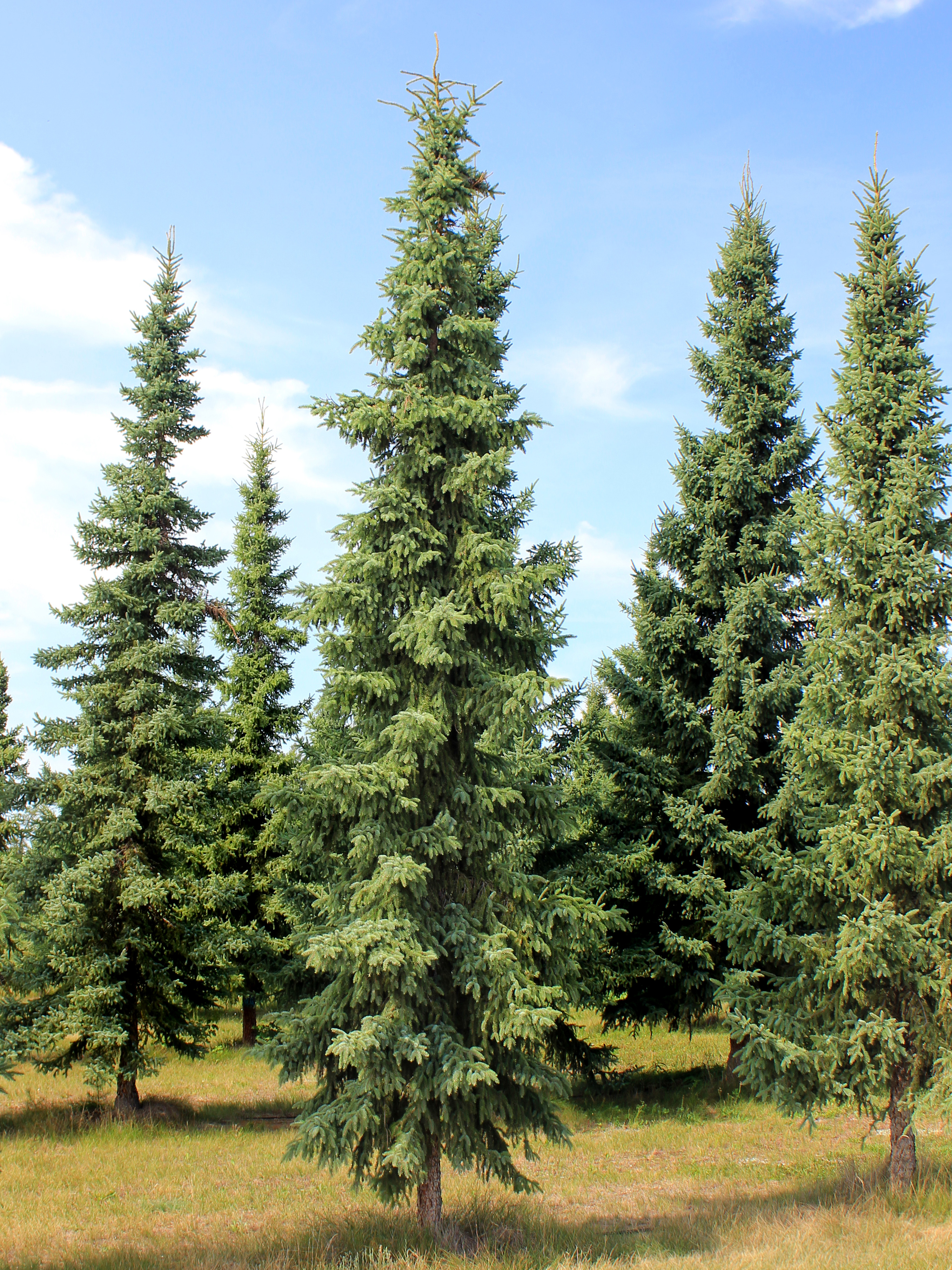 Black spruce seed orchard near Smoky Lake, Alberta.